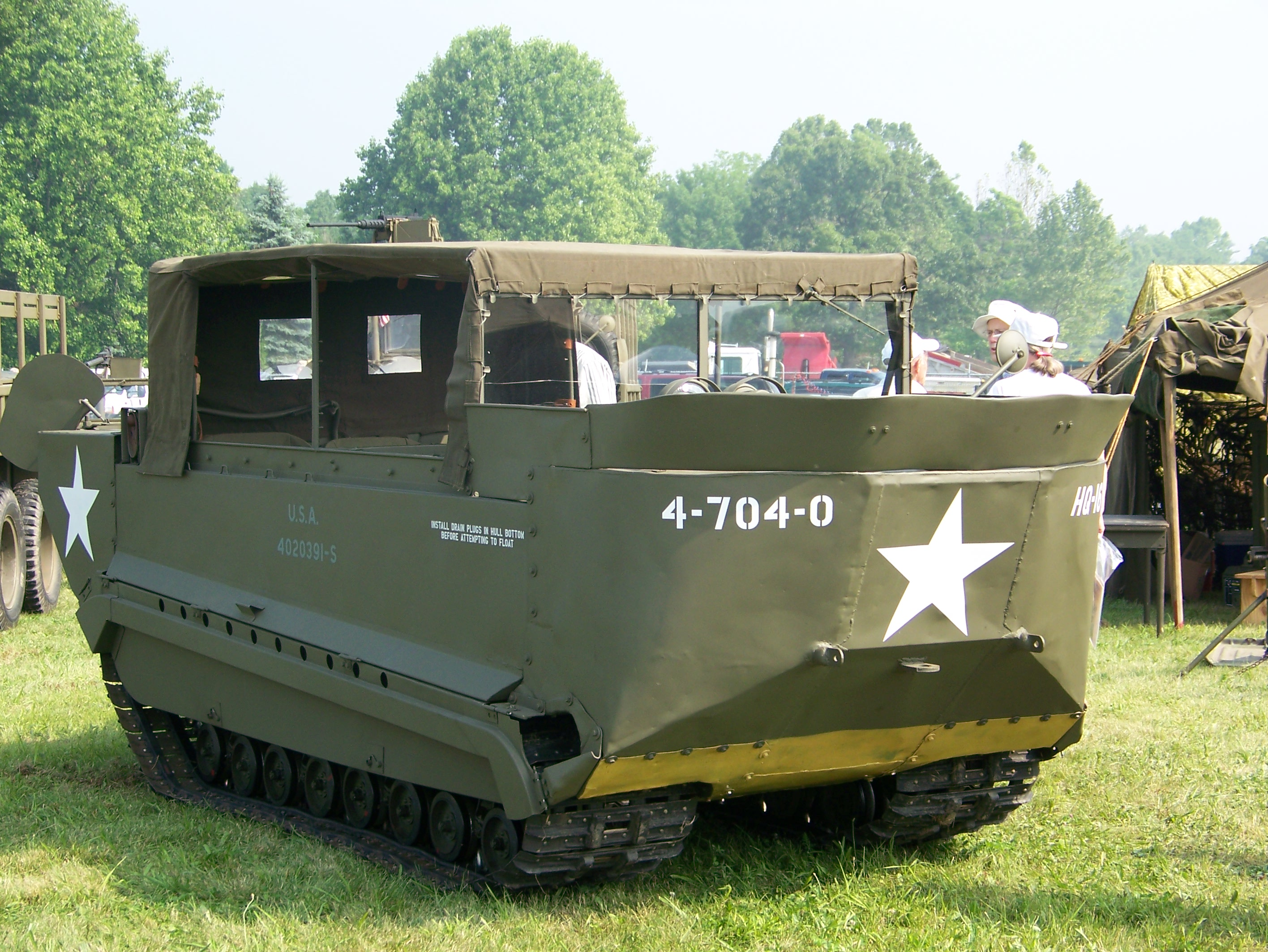 M-29C Water Weasel at the Reading Regional Airport during World War II weekend Reading , PA. June 7th 2008